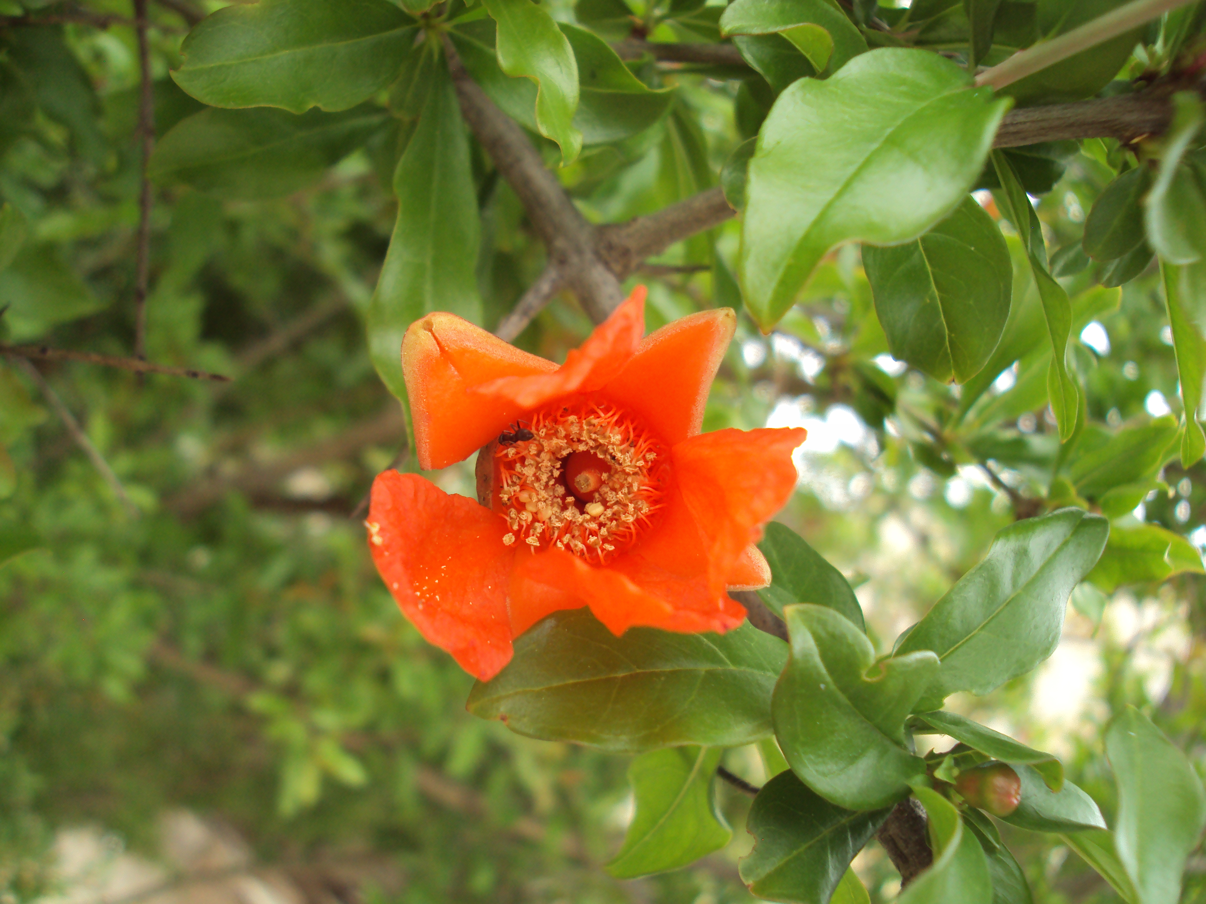 Flower of pomegranate (Punica granatum)